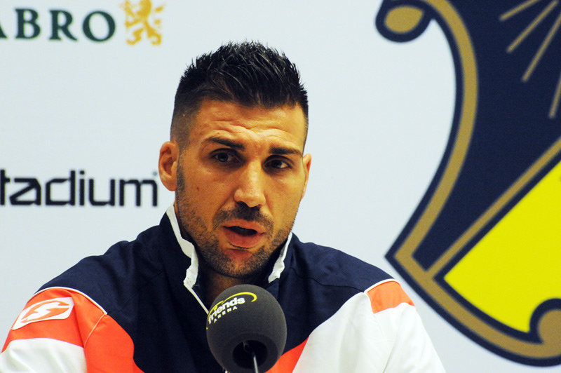 Sokratis Fytanidis in a press conference before UEFA Europa League qualification match against AIK Fotboll